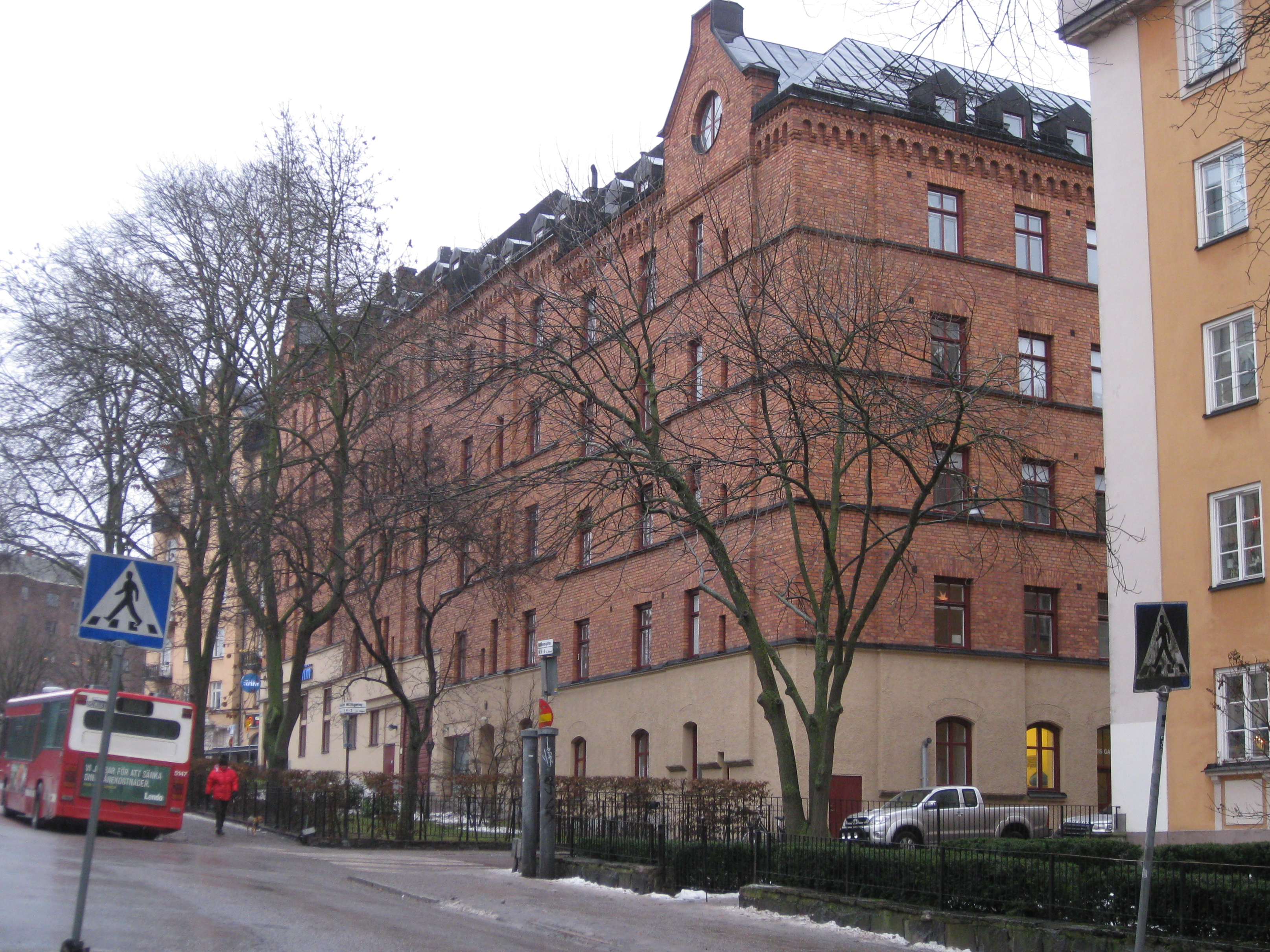 Tenement building for workers in Stockholm, Sweden. Built 1895-98. The building was nicknamed "Tegeltraven" - The Brickstack.